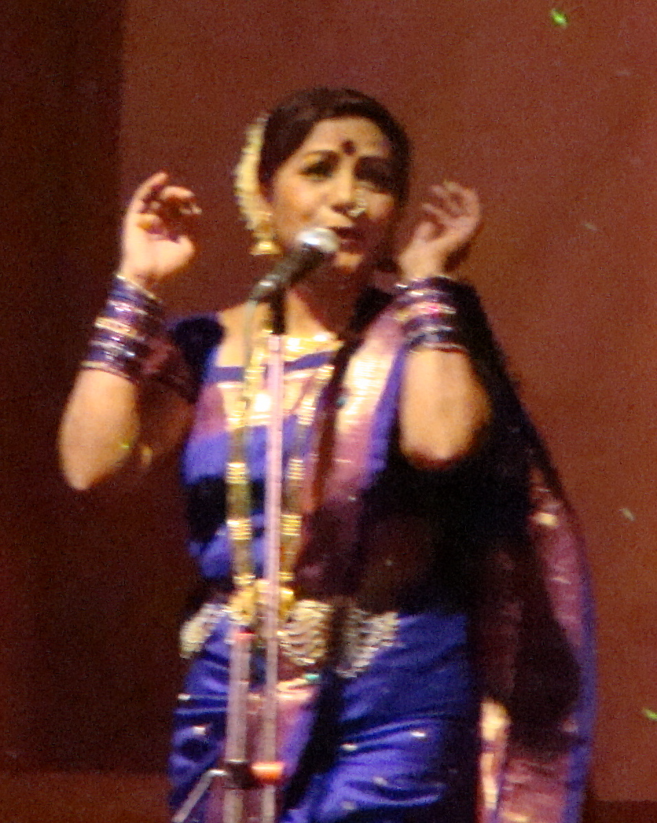 Famous Lavani Dancer Surekha Punekar can be seen in image